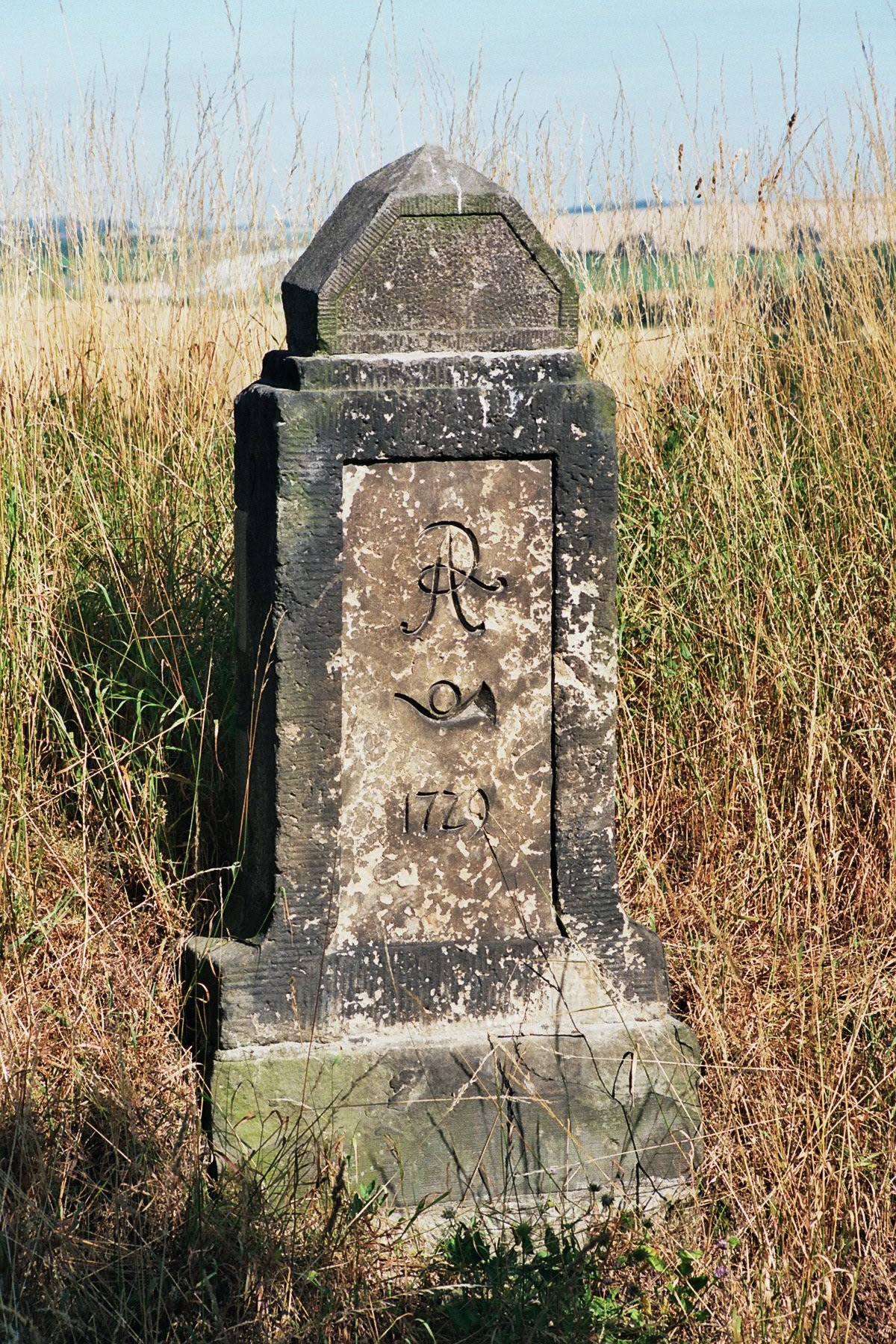 This image shows the quarter-mile stone No. 9 (1729) on the old post route from Dresden to Teplice near Niederseidewitz.